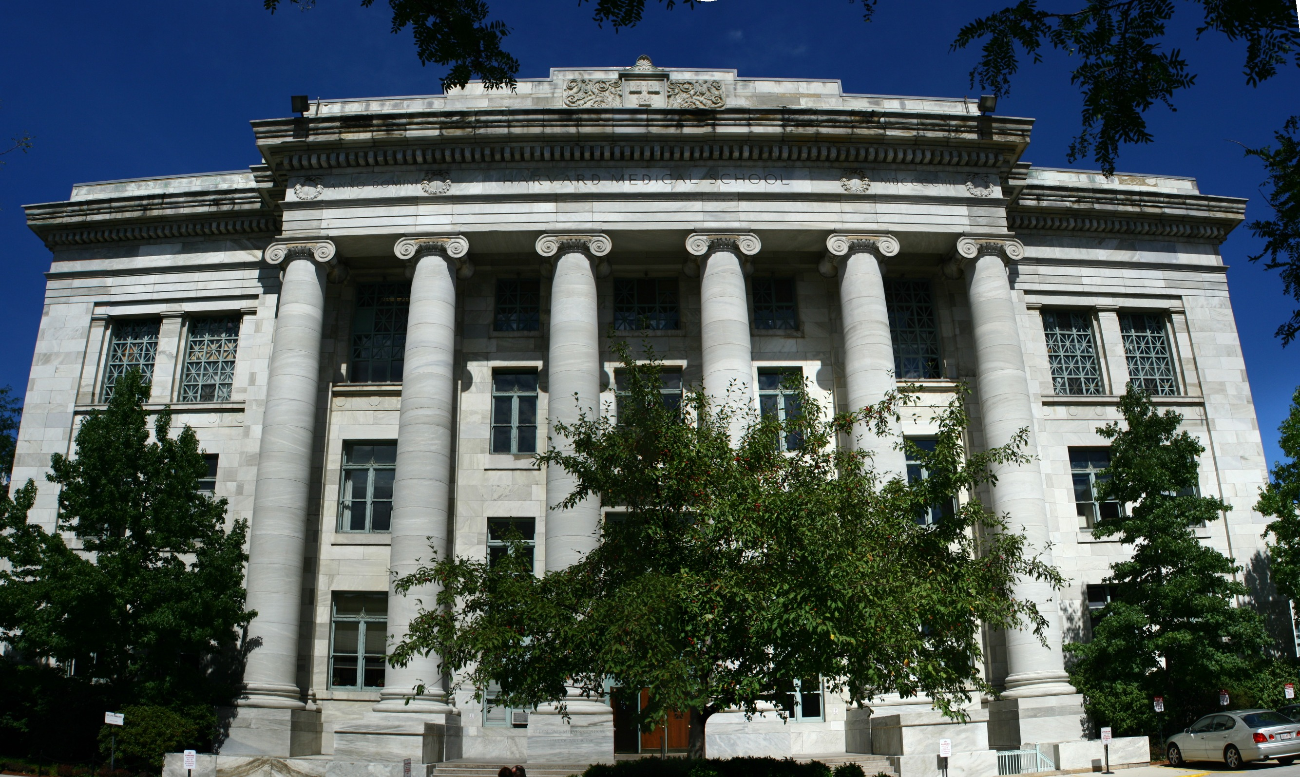 Harvard medical school administrative building in Longwood medical area in Boston, MA. (next to Dana Farber Cancer Institute)